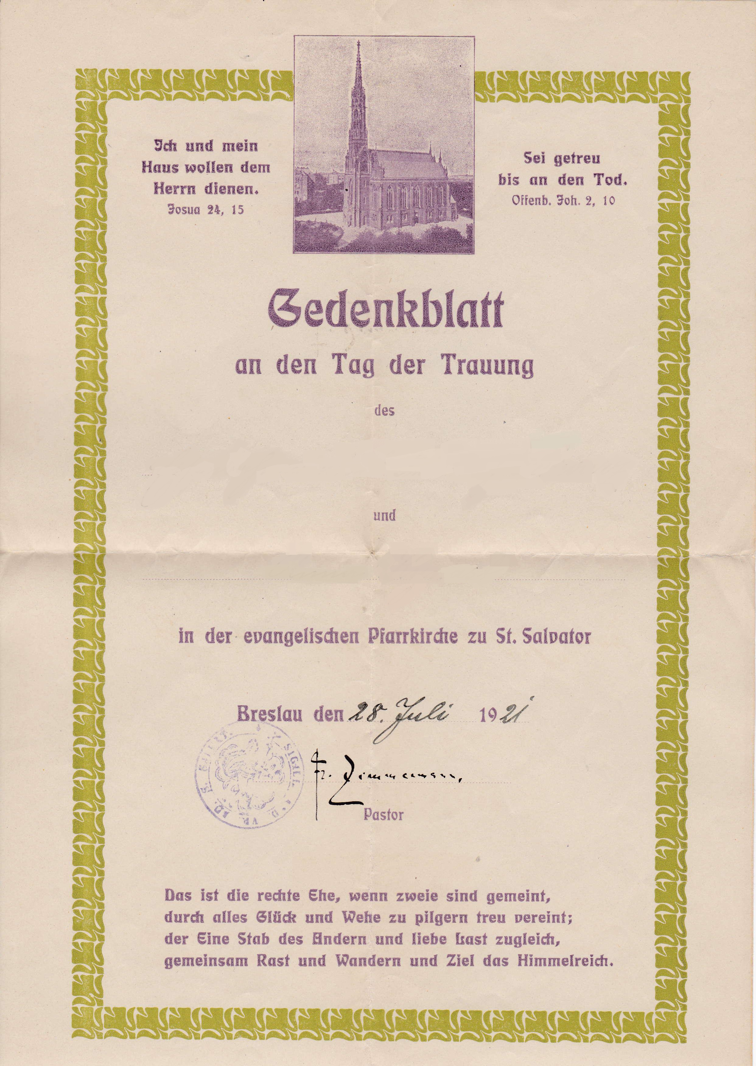 Memorial sheet for a marriage in Saint Salvator church in Breslau, today's Wroclaw, Poland.